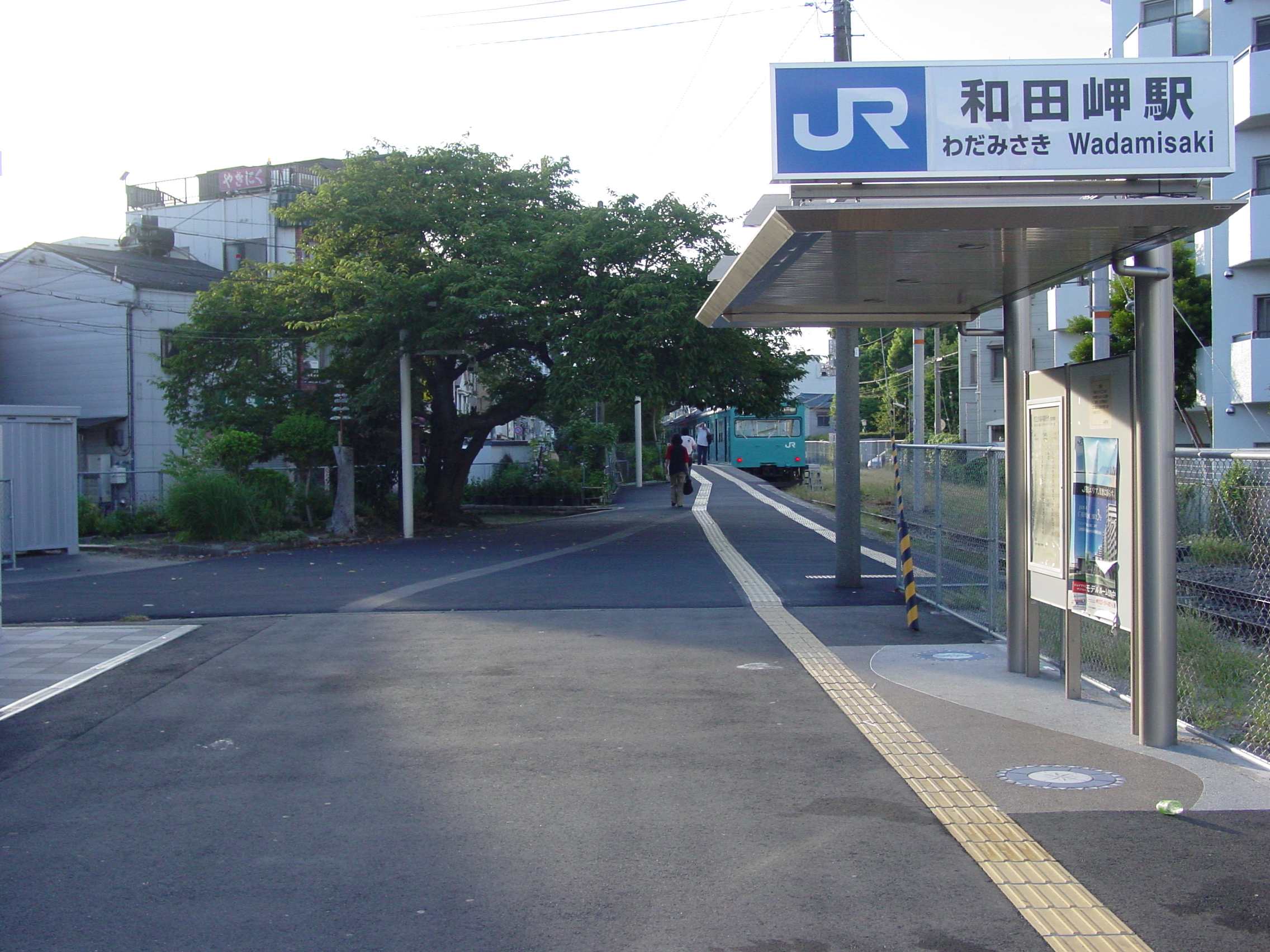 Wadamisaki Station